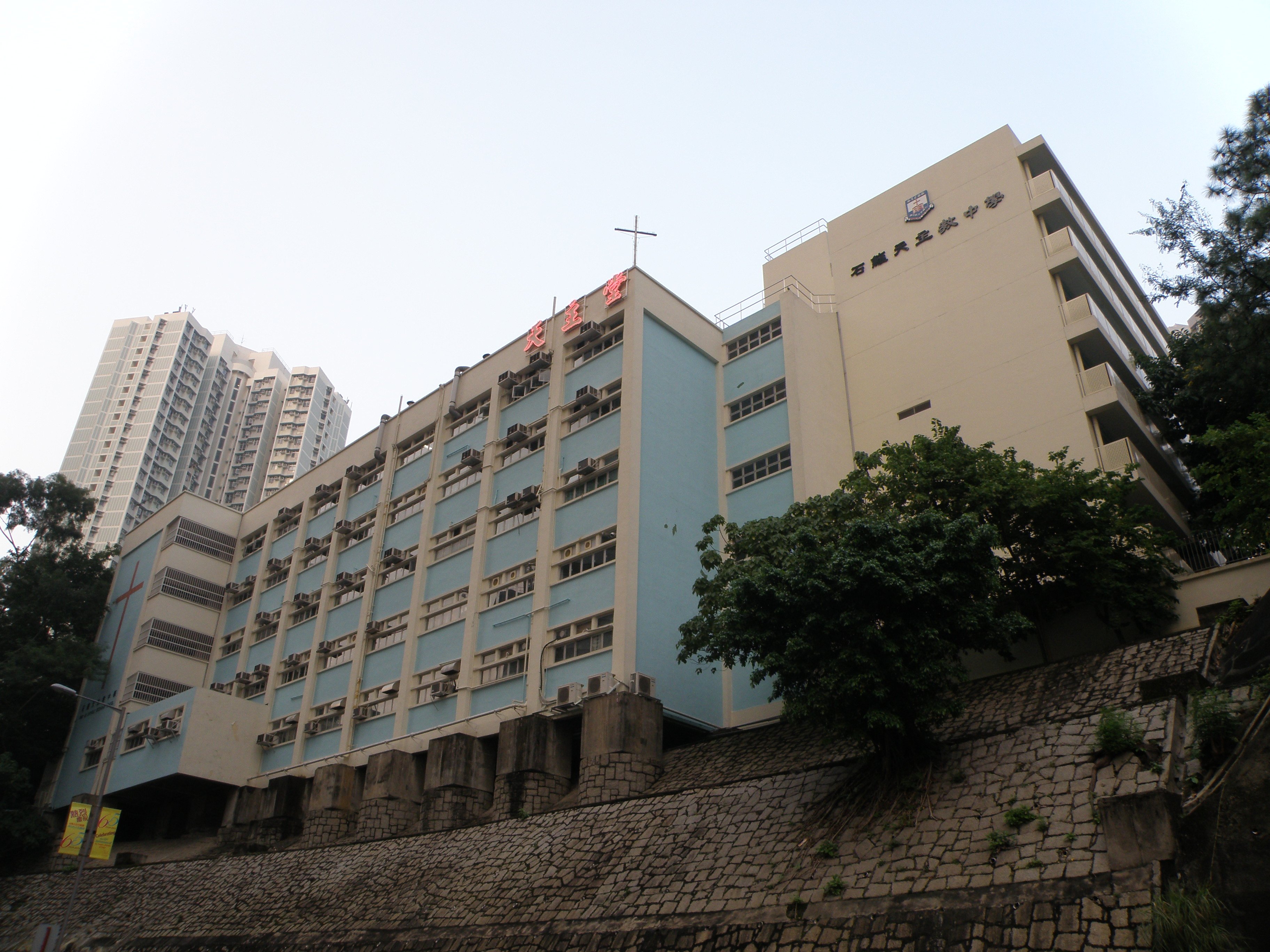 Shek Lei Catholic Secondary School in Kwai Chung, Hong Kong.